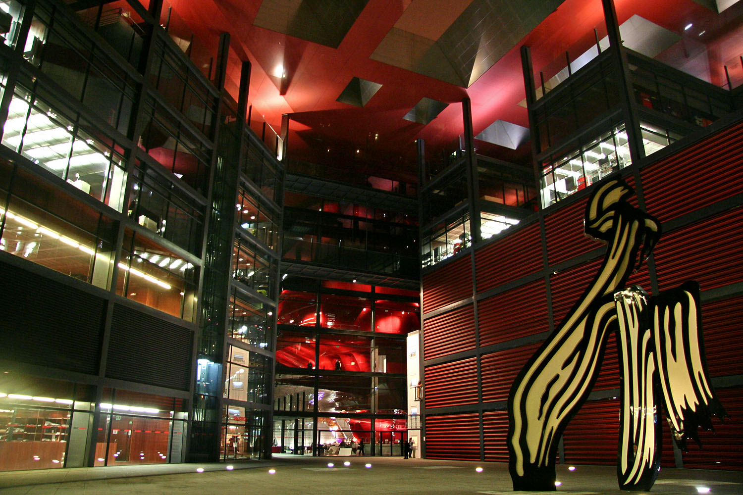 Extension of Queen Sofia Museum (MNCARS) in Madrid (Spain).